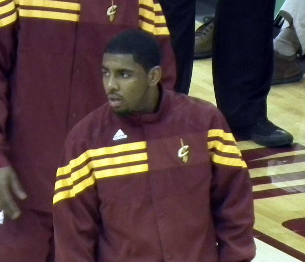 Kyrie Irving of the Cleveland Cavaliers.